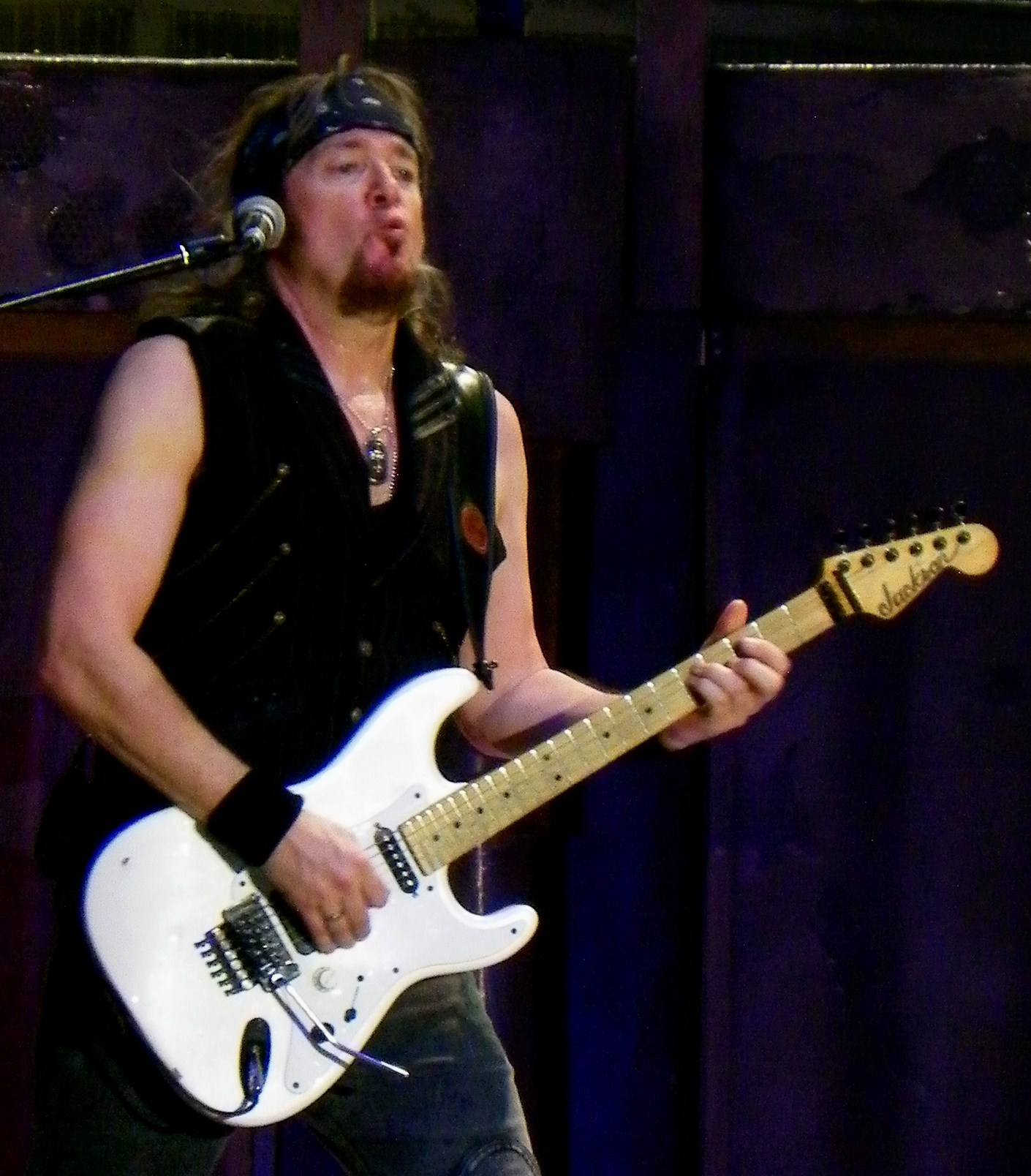 Adrian Smith performing with Iron Maiden in Newcastle, 23 July 2011